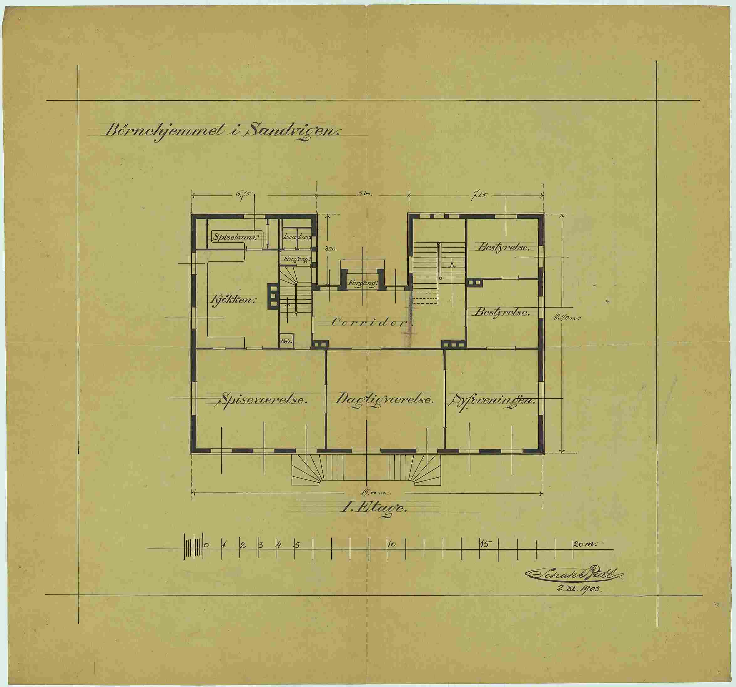 Første etasje av barnehjemmet.